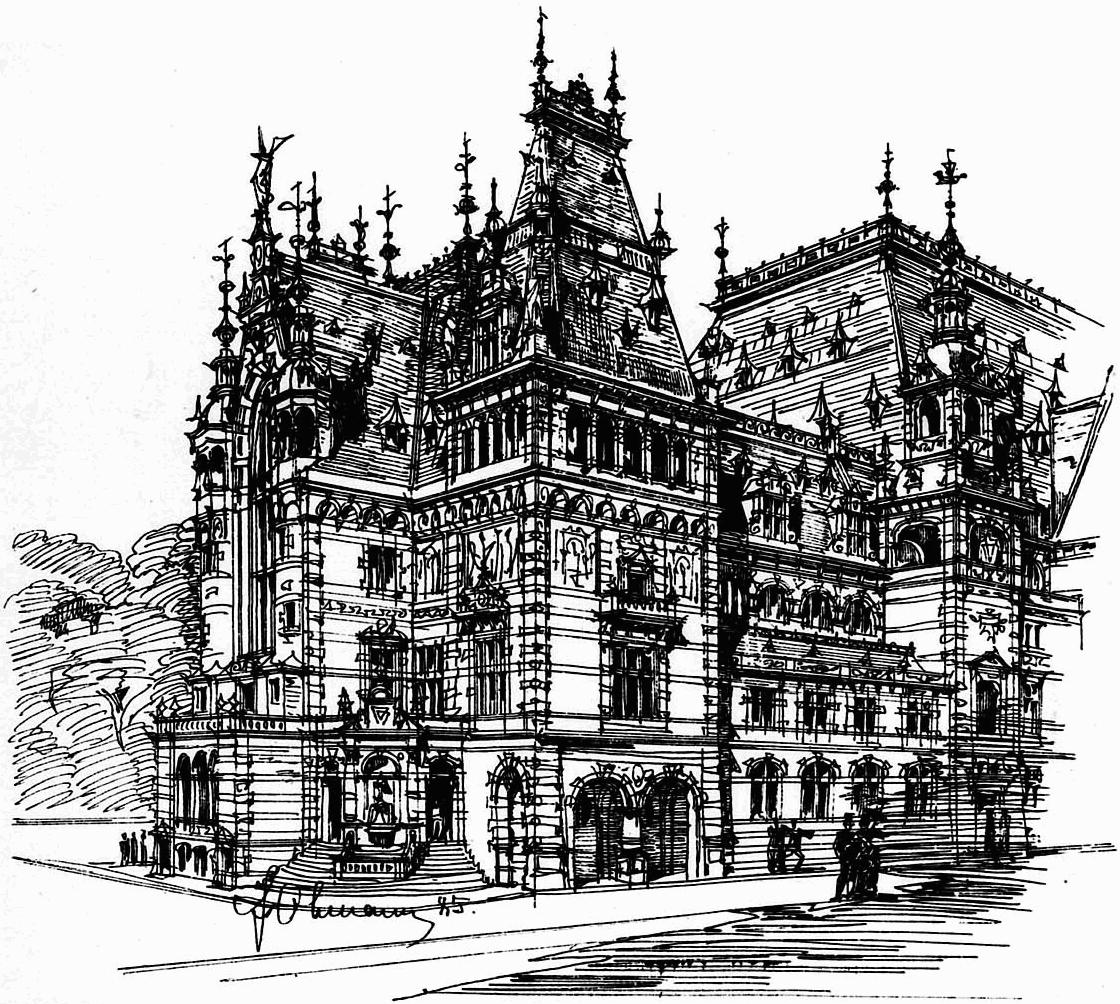 Design for a Stock Exchange, Amsterdam, perspective. Motto: 'In hoc Signo floresco'.